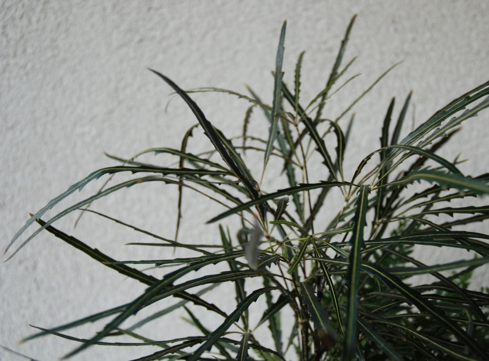 Leaves of Schefflera elegantissima (syn. Dizygotheca elegantissima).